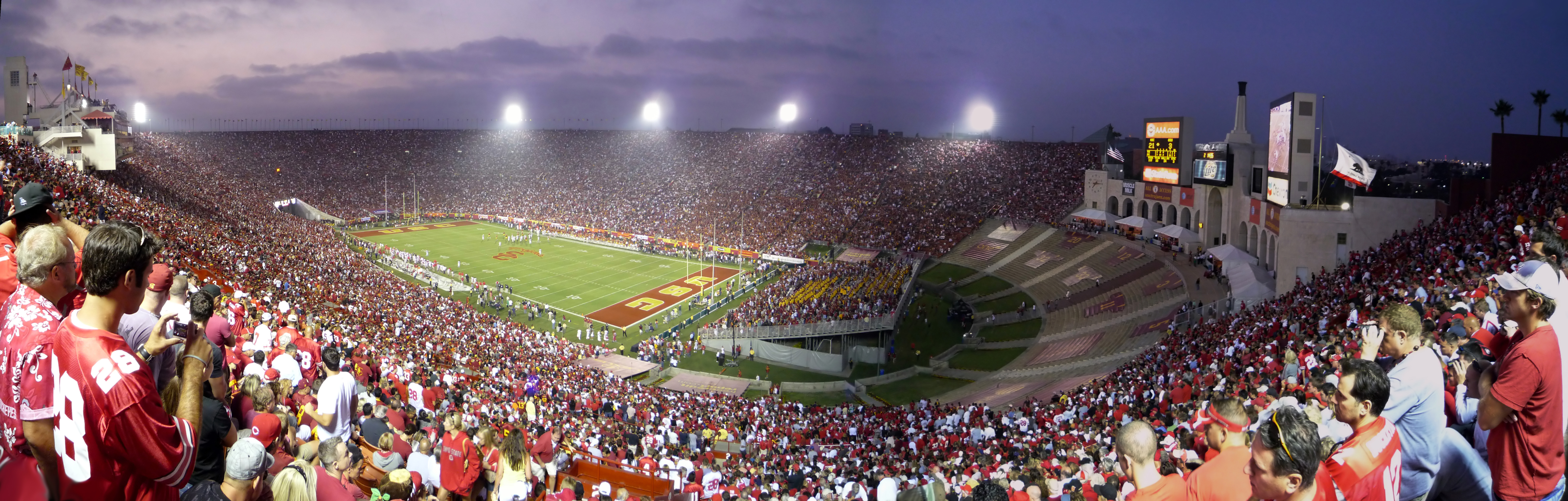 Third quarter of the major regular season college football game between the visiting No. 5 Ohio State Buckeyes and the No. 1 USC Trojans at the L.A. Coliseum on September 13, 2008; USC would win, 35-3.